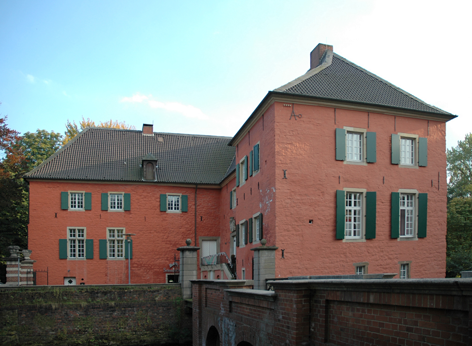 Haus Lüttinghof in Gelsenkirchen-Hassel, inner ward